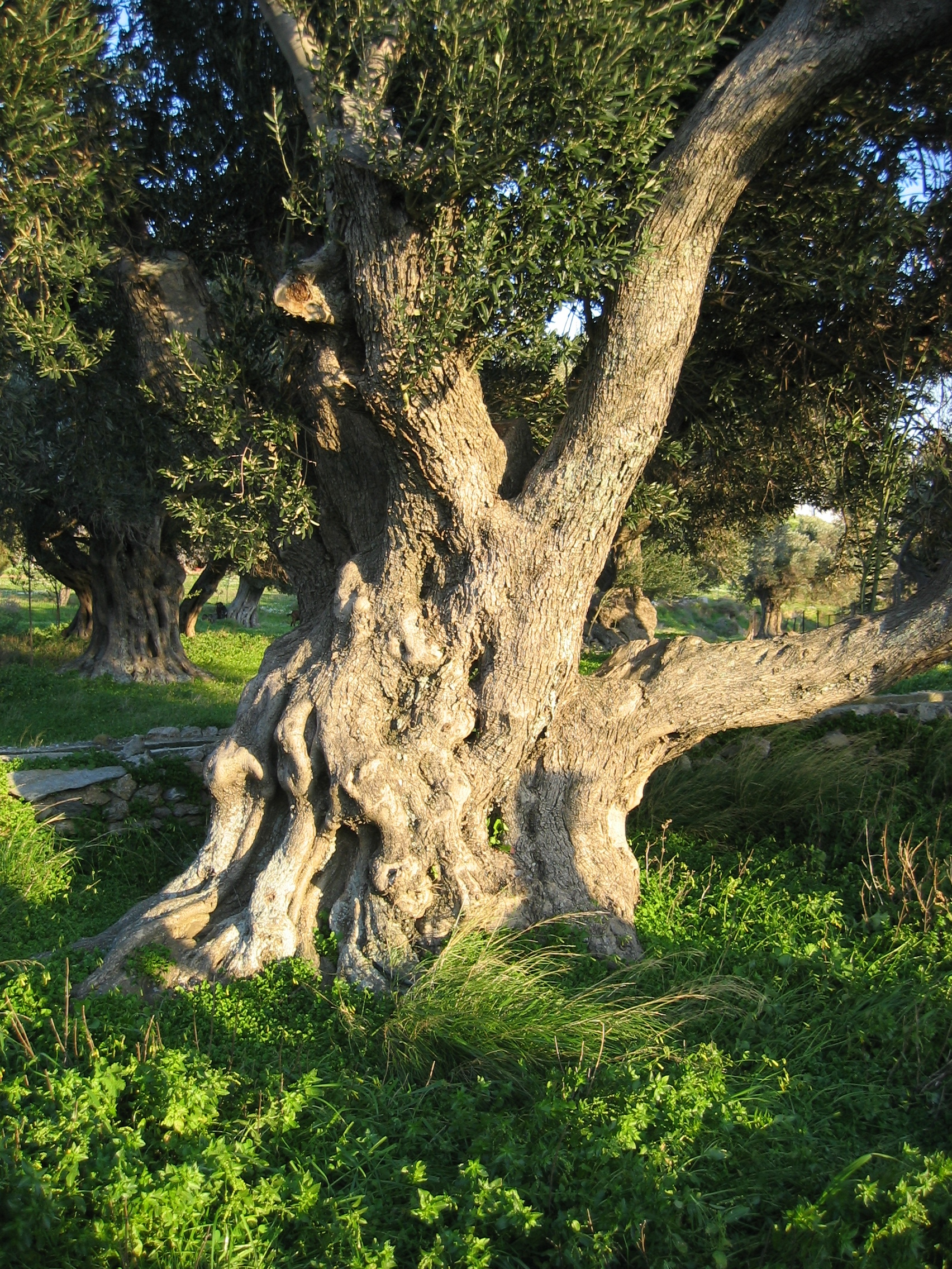 Old olive tree near Karystos, Eboeia, Greece.